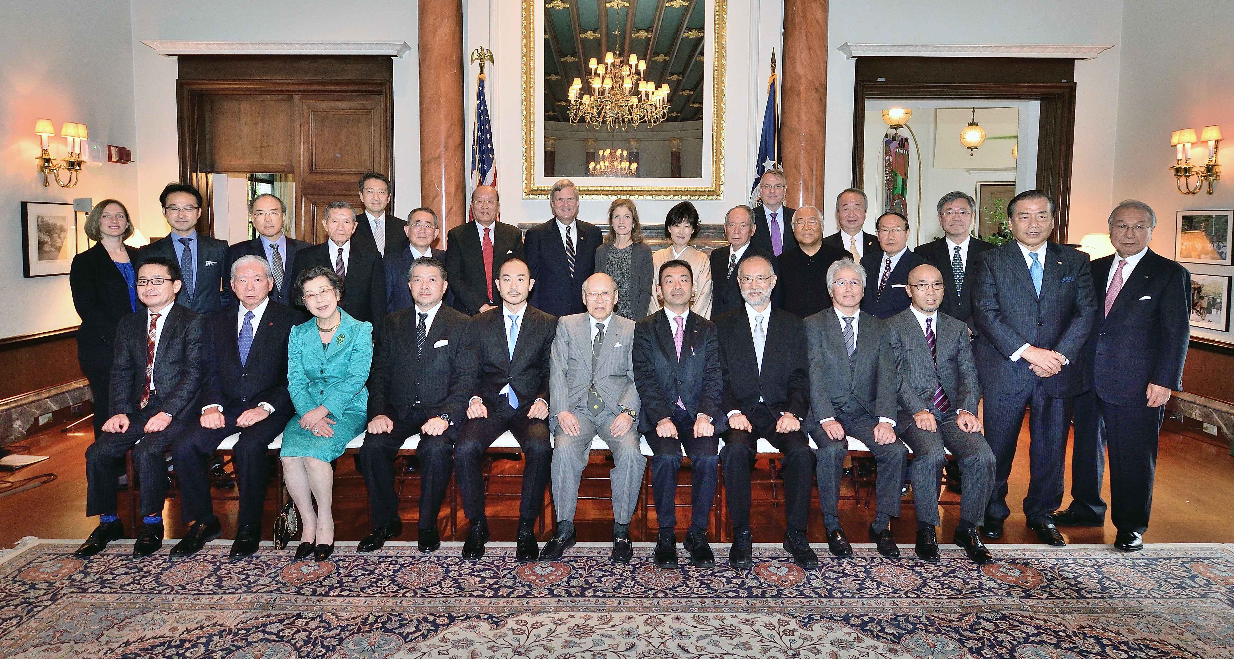 Tom Vilsack, Secretary of Agriculture, Caroline Kennedy, Ambassador to Japan, and the member of the U.S. - Japan Agricultural Trade Hall of Fame posed for the photograph at the Residence of the Ambassador in Tokyo on November 20, 2015.